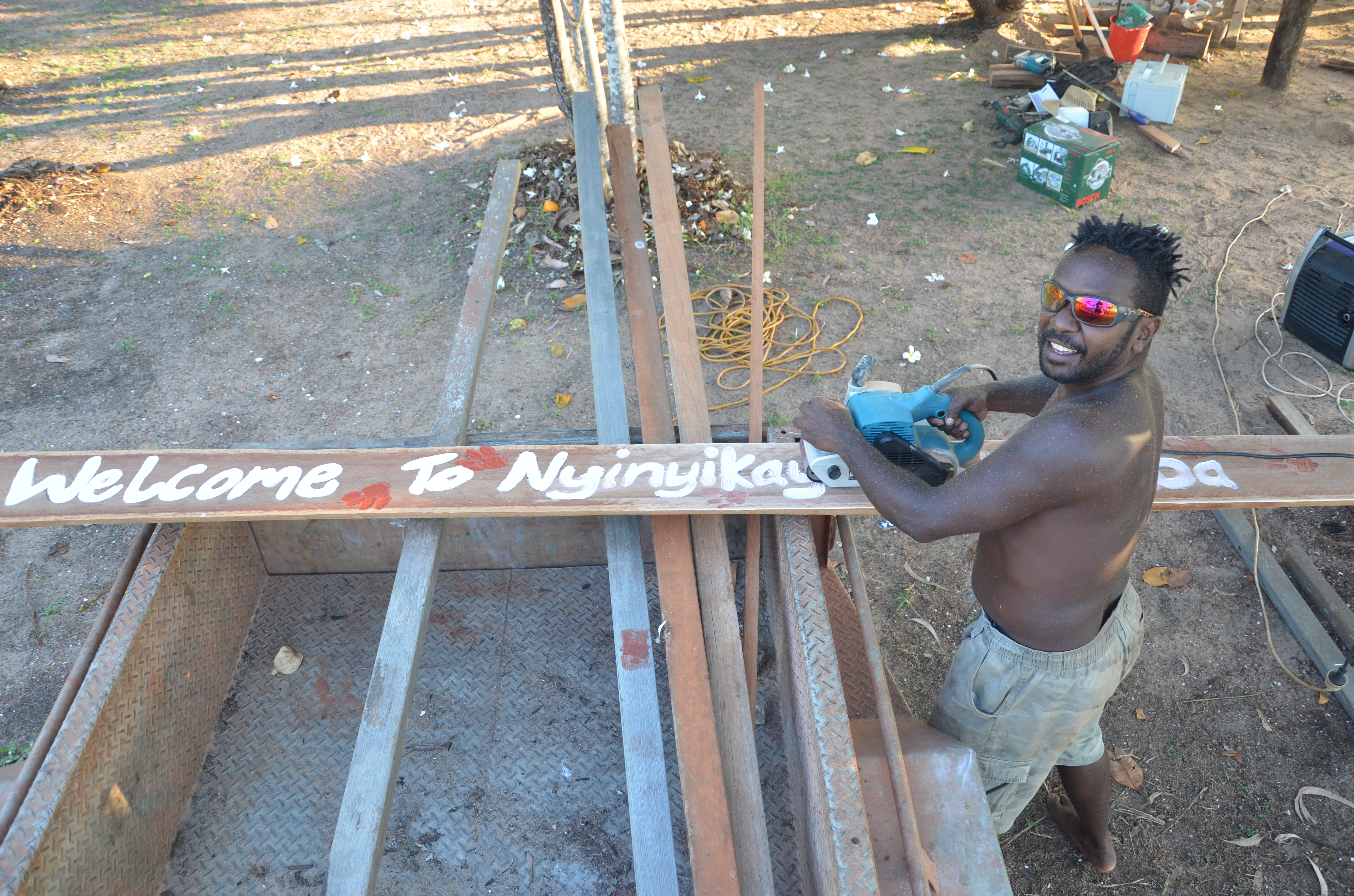 Marcus Lacey working on a Welcome sign at Nyinyikay with the support of Lirrwi Yolngu Tourism Aboriginal Corporation.